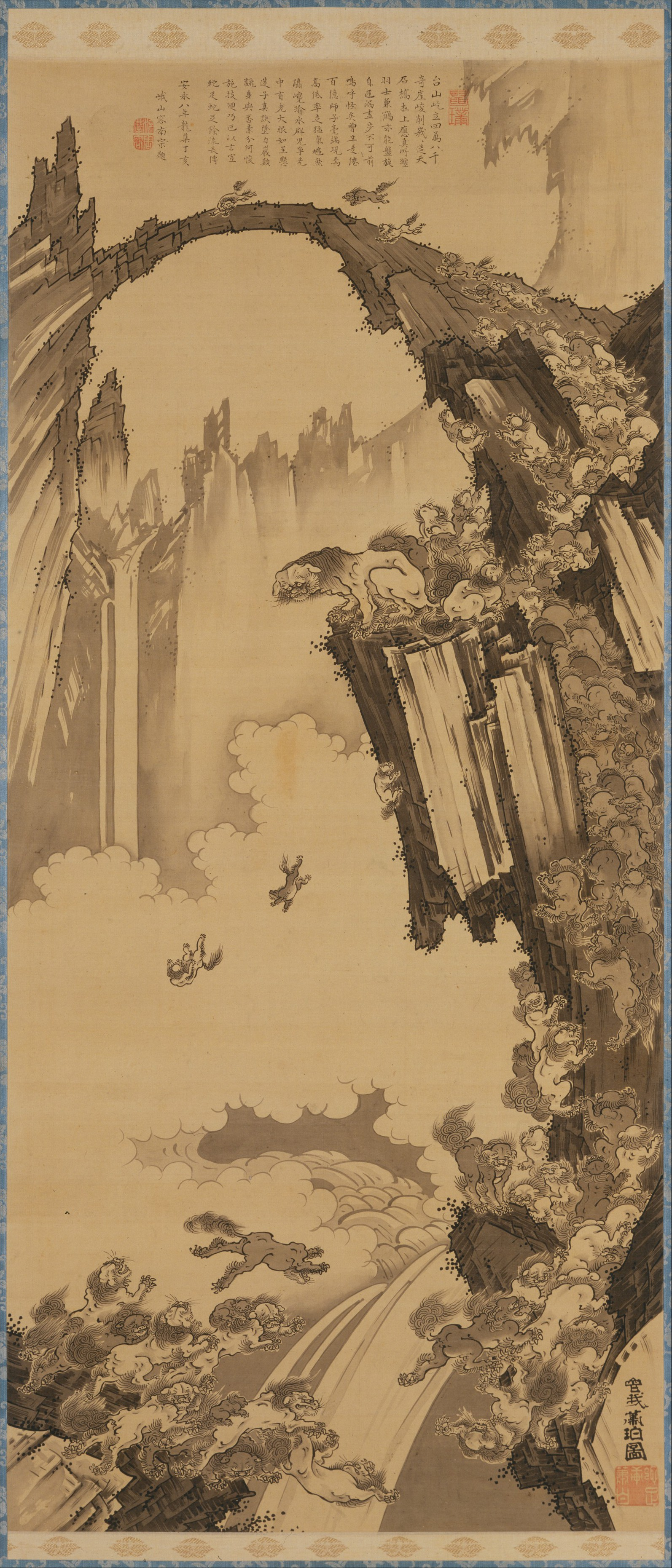 Ink painting by Soga Shōhaku depicting a Chinese story of mother lion testing her cubs by throwing them down at a cliff.